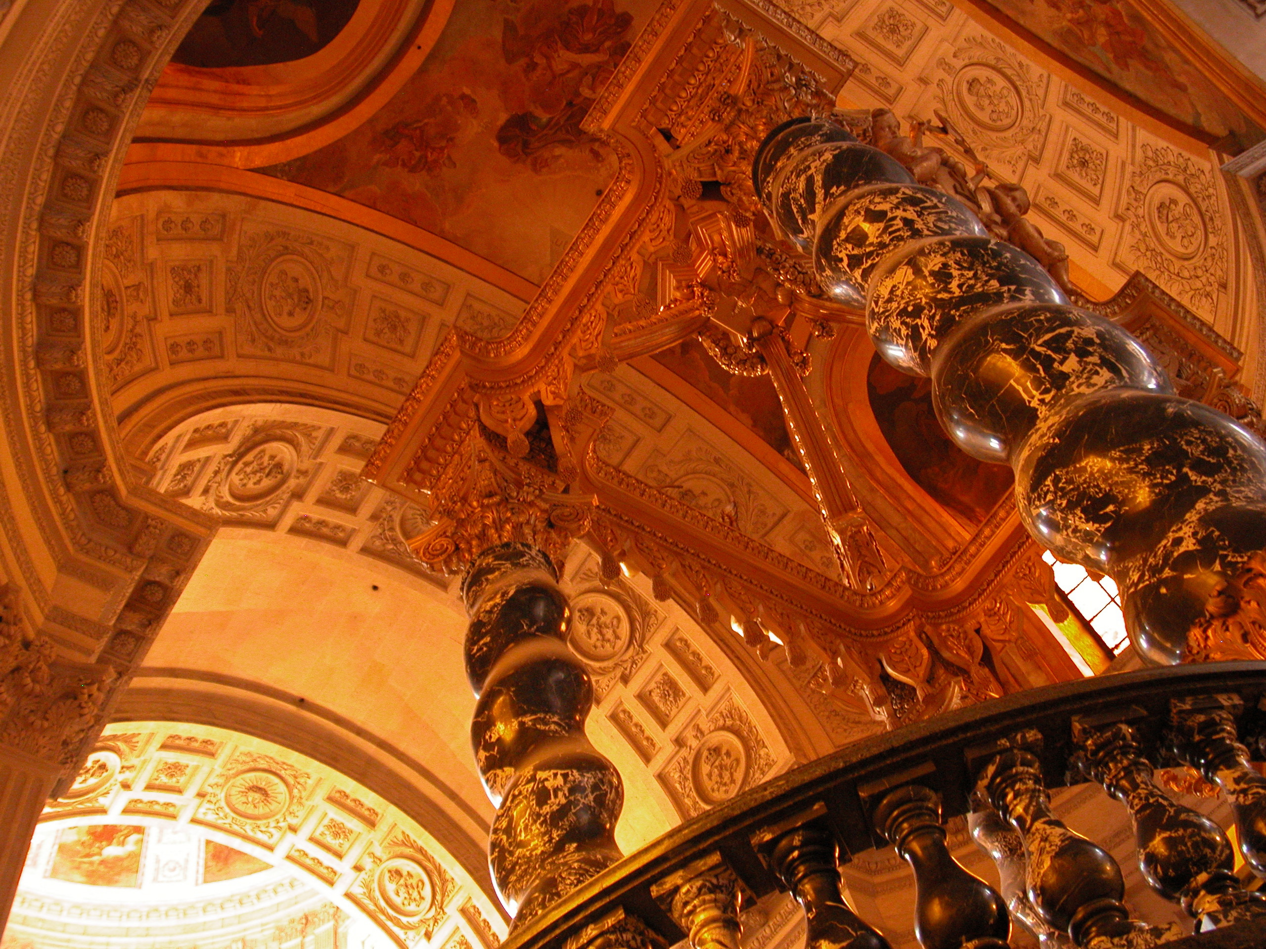 Author : Scott Stensland Date : 20041228 Les Invalides de Paris ceiling huge orignial at